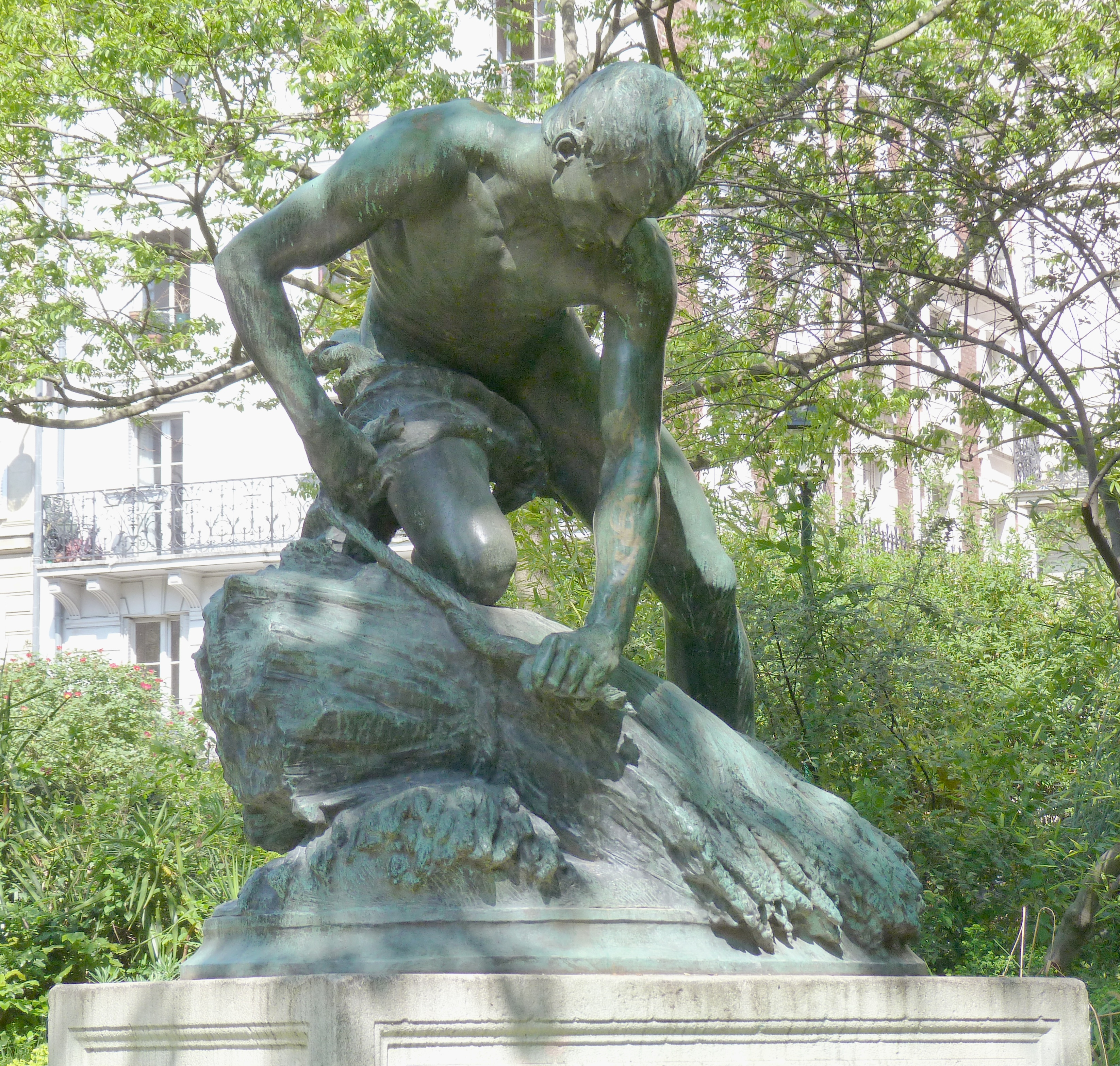 Le Botteleur, bronze (1891), par Jacques Perrin (1847-1915), square Maurice-Gardette, Paris (11e arrond.)